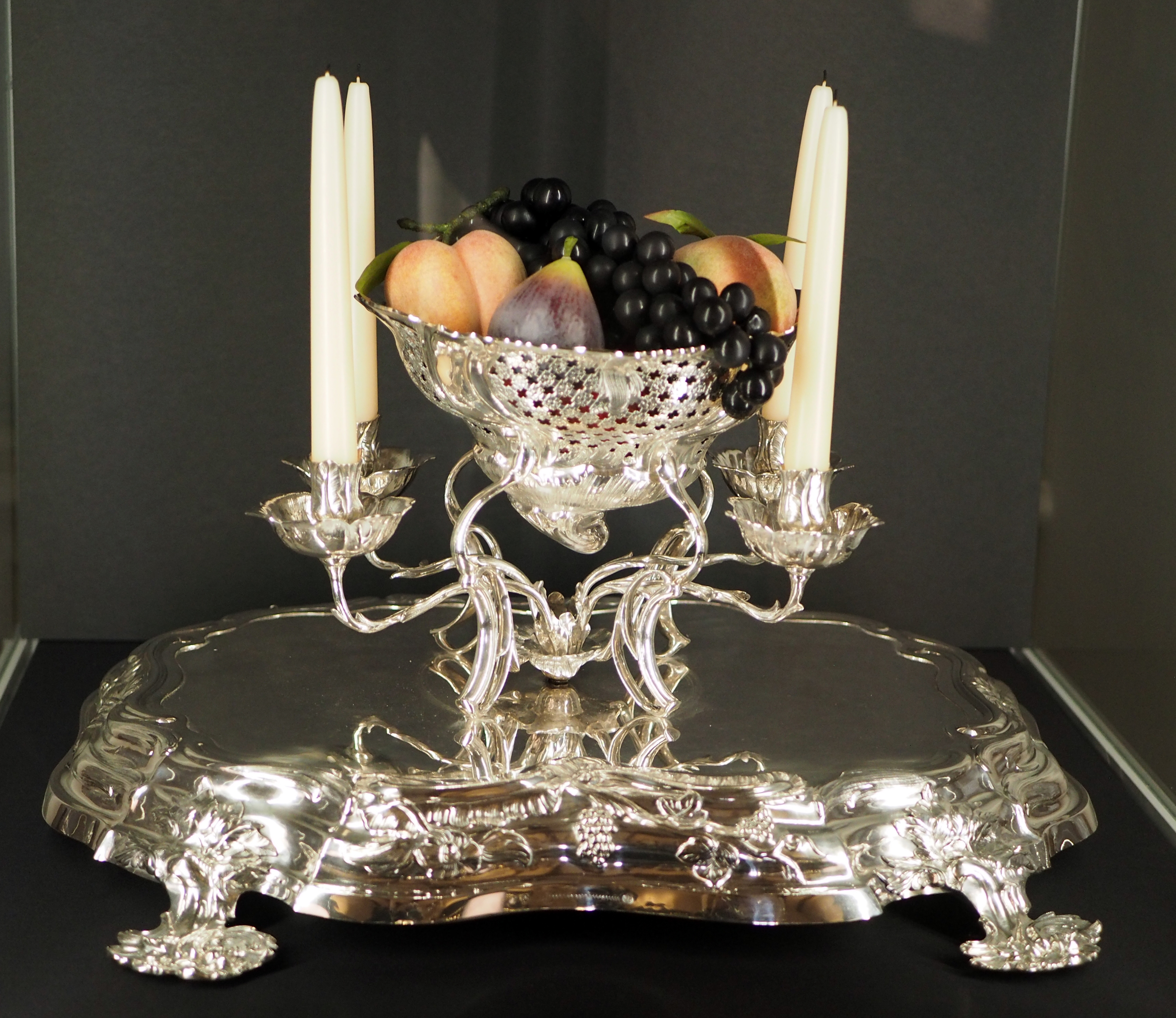 Centreplace